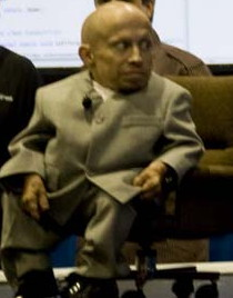 Verne Troyer as Minime.